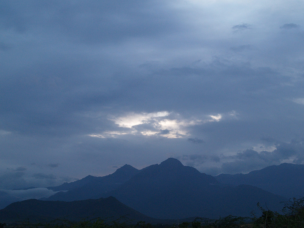 View of the sunset in Needle Rock View Point